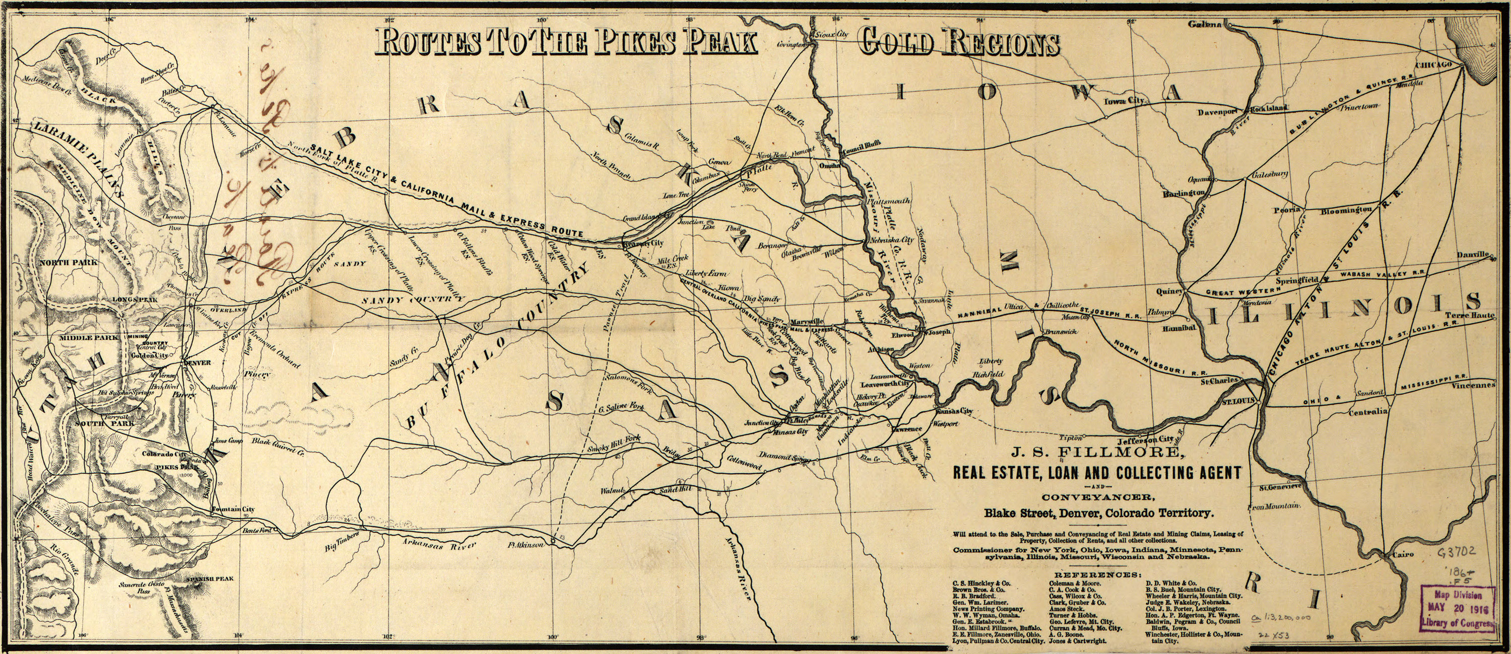 Map of the routes to the Pike's Peak gold fields. Commissioned by J.S. Fillmore, a land speculator and merchant.